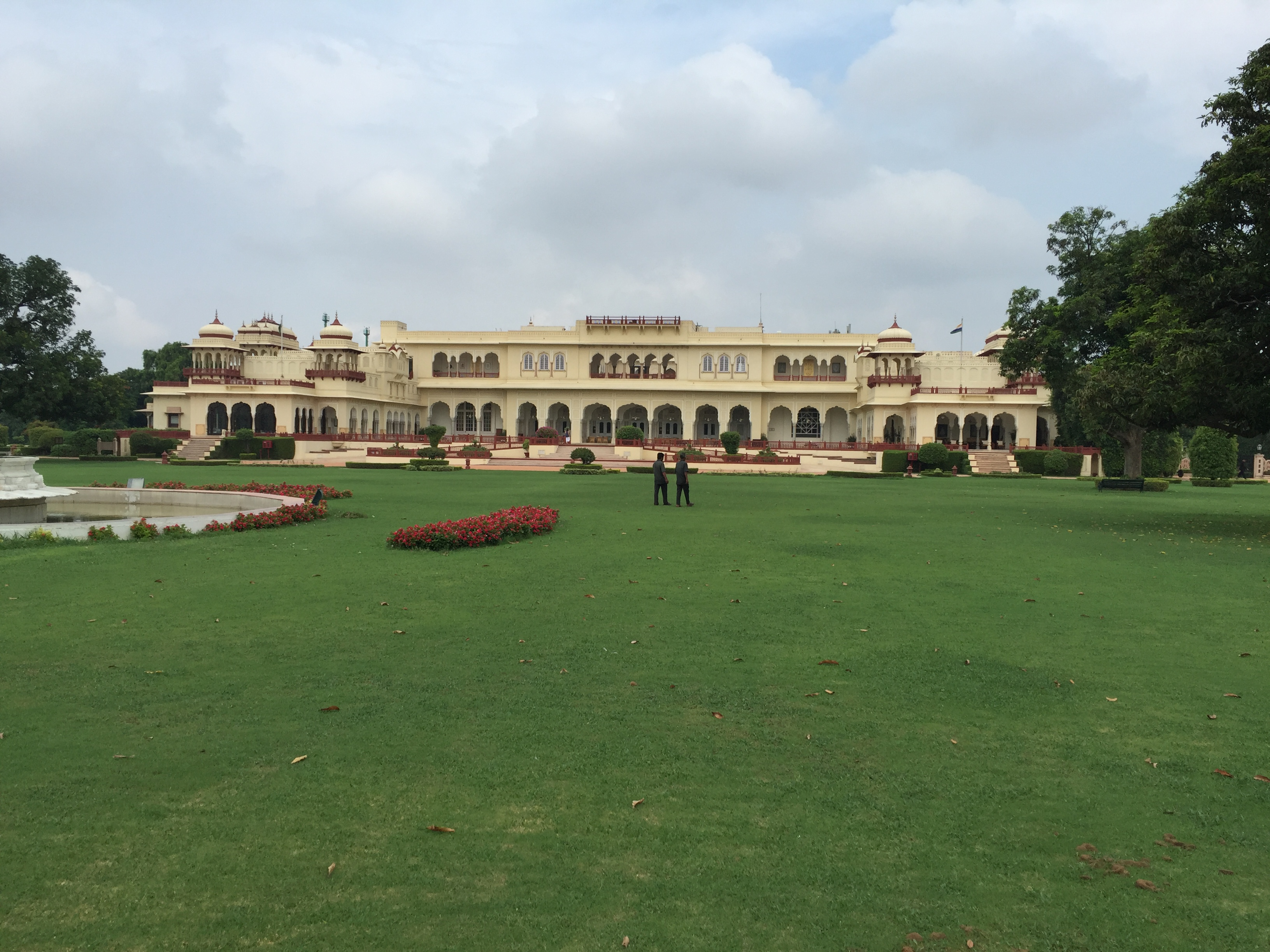 Rambagh Palace viewed from the garden. Jaipur, India